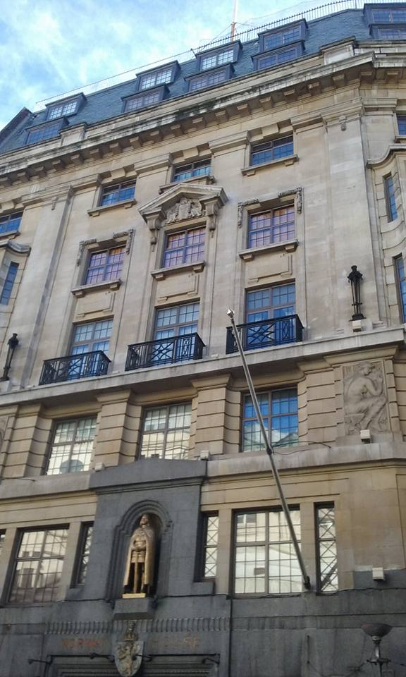 Norway House in Cockspur Street, London.